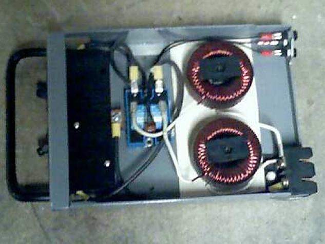 photo of a dimmer by KeepOnTruckin